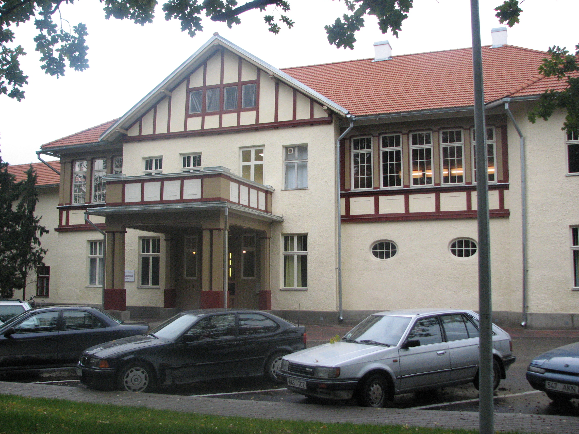 New main building of the Tähtvere manor, Tartu, Estonia